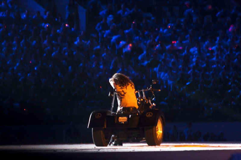 Martin Deschamps has taken the stage on his Harley Davidson Motorbike singing rock n' roll. The stage is covered in flames. Opening ceremony, 2010 Paralympics.